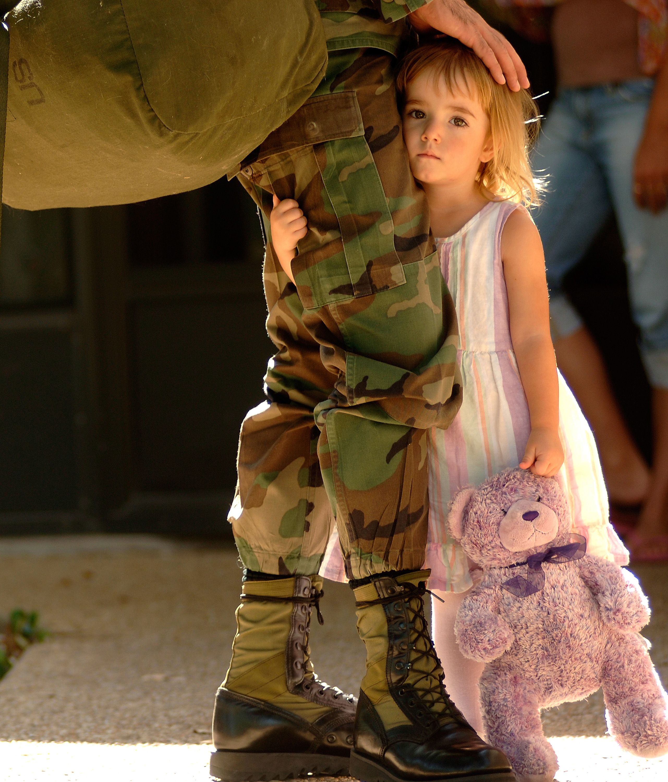 I'll Miss You Dad Child holds on tight to her dad's leg while saying goodbye to him. Her father deployed to Southwest Asia for six months in support of OEF and OIF.